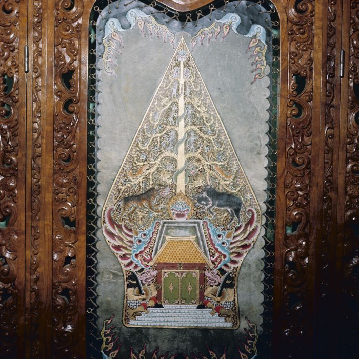 Wayang figure used to mark an interval in the play